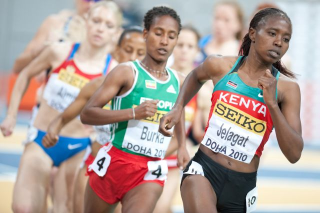 Gelete Burka and Irene Jelagat during Doha 2010 World Indoor Championships